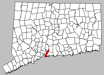 Created map to improve graphic from old version.